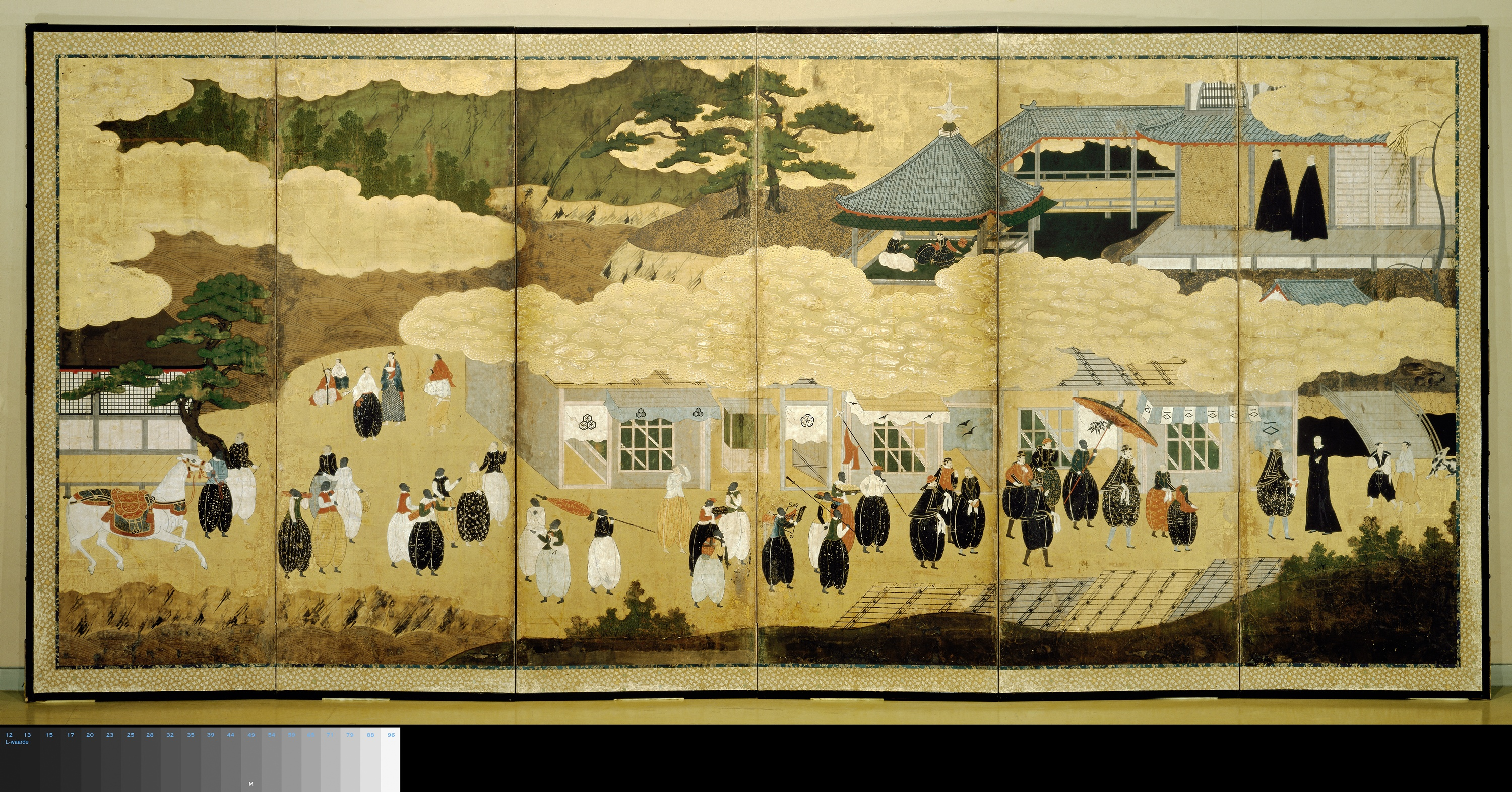 One of two Namban screens, a left and a right half, each composed of six panels. The screens depict the unloading of a Portuguese ship and the procession of the Portuguese.